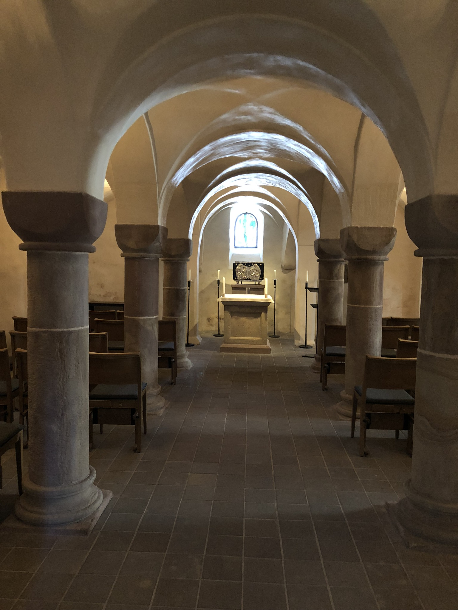 Crypt in Zylpich, Rineland, Germany